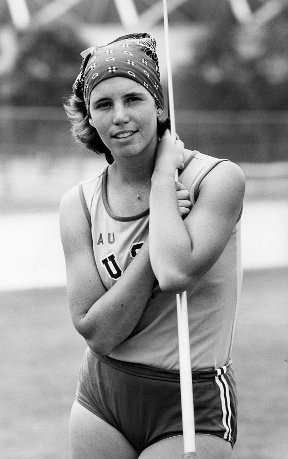 1976 Press Photo Kathy Schmidt, XXI Olympic track and field, United States.